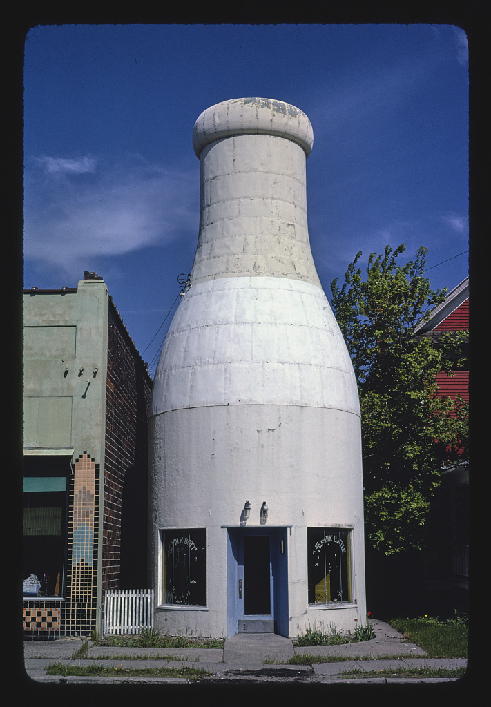 This image is available from the United States Library of Congress's Prints and Photographs division under the digital ID mrg.00649.This tag does not indicate the copyright status of the attached work. A normal copyright tag is still required. See Commons:Licensing for more information.